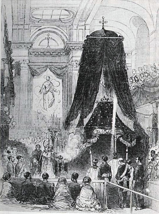 Warwick Street Church London, 1853